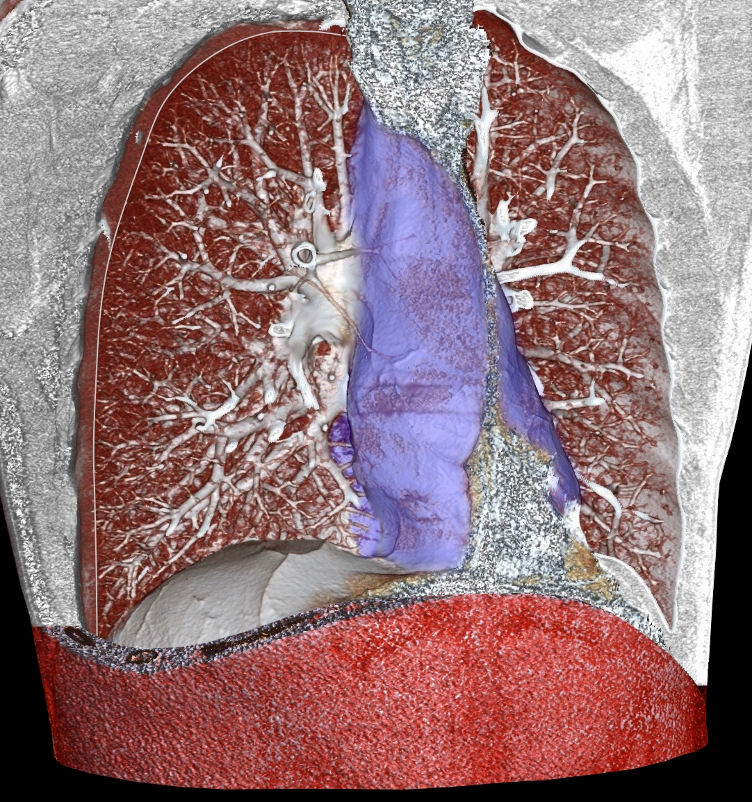 edit 3D rendering of a high resolution computed tomography of a normal thorax of a 37 year old man who presented with unspecific breathing problems, published with written informed consent. The anterior thoracic wall, the airways and the pulmonary vessels anterior to the root of the lung have been digitally removed in order to visualize the large vessels of the pulmonary circulation. The mediastinum is highlighted in blue.